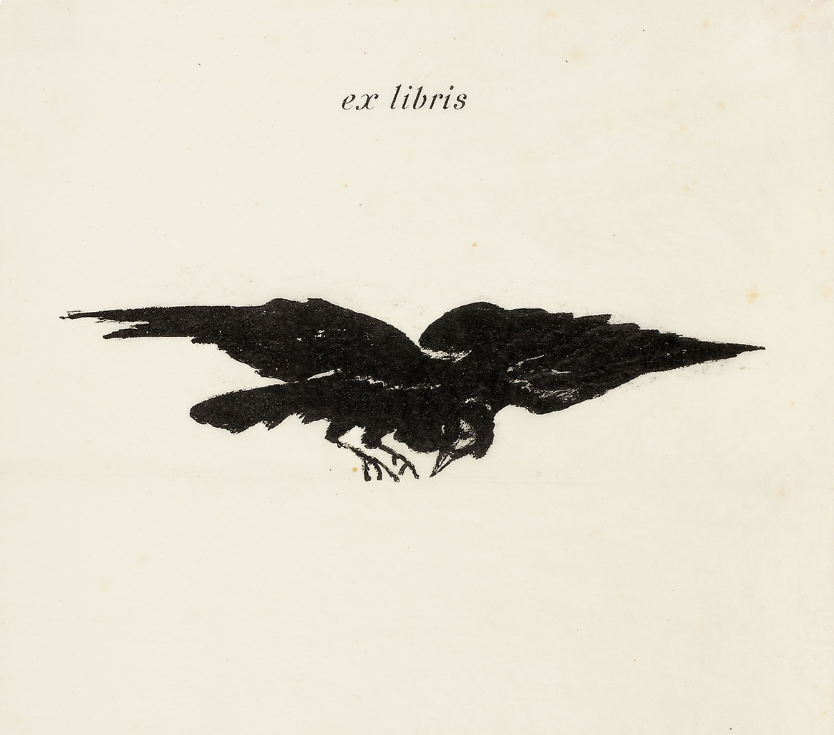 The Flying Raven, Ex Libris for The Raven by Edgar Allan Poe